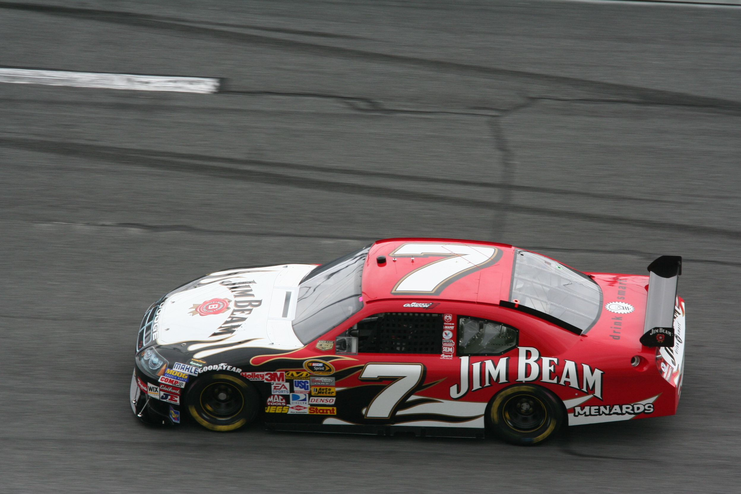 Shot by The Daredevil at Daytona during Speedweeks 2008Robby Gordon Jim Beam Dodge Charger